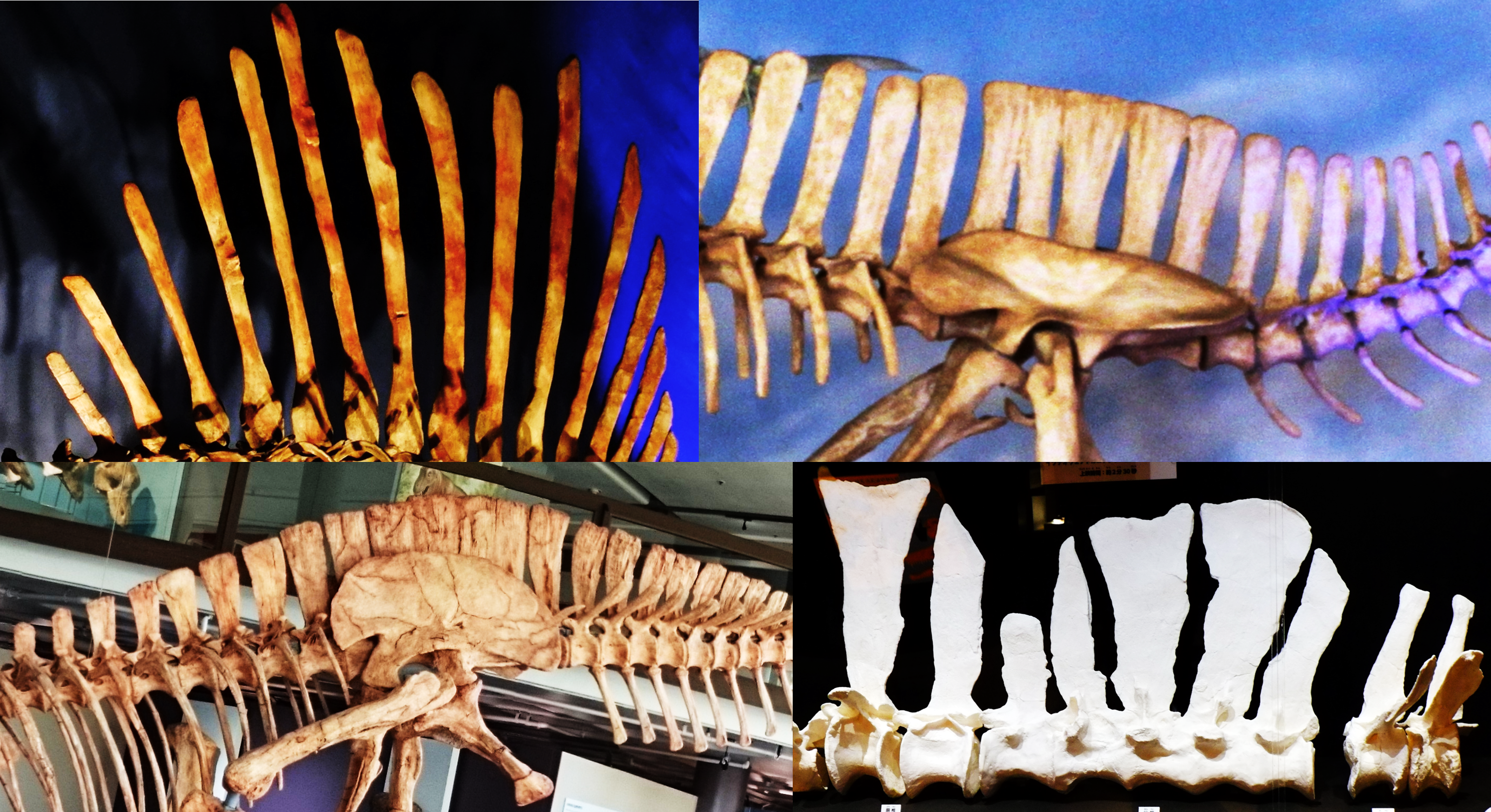 Comparison of reconstructed sails of spinosaurid dinosaurs; clockwise from top left: Irritator, Spinosaurus, Suchomimus, and Ichthyovenator.